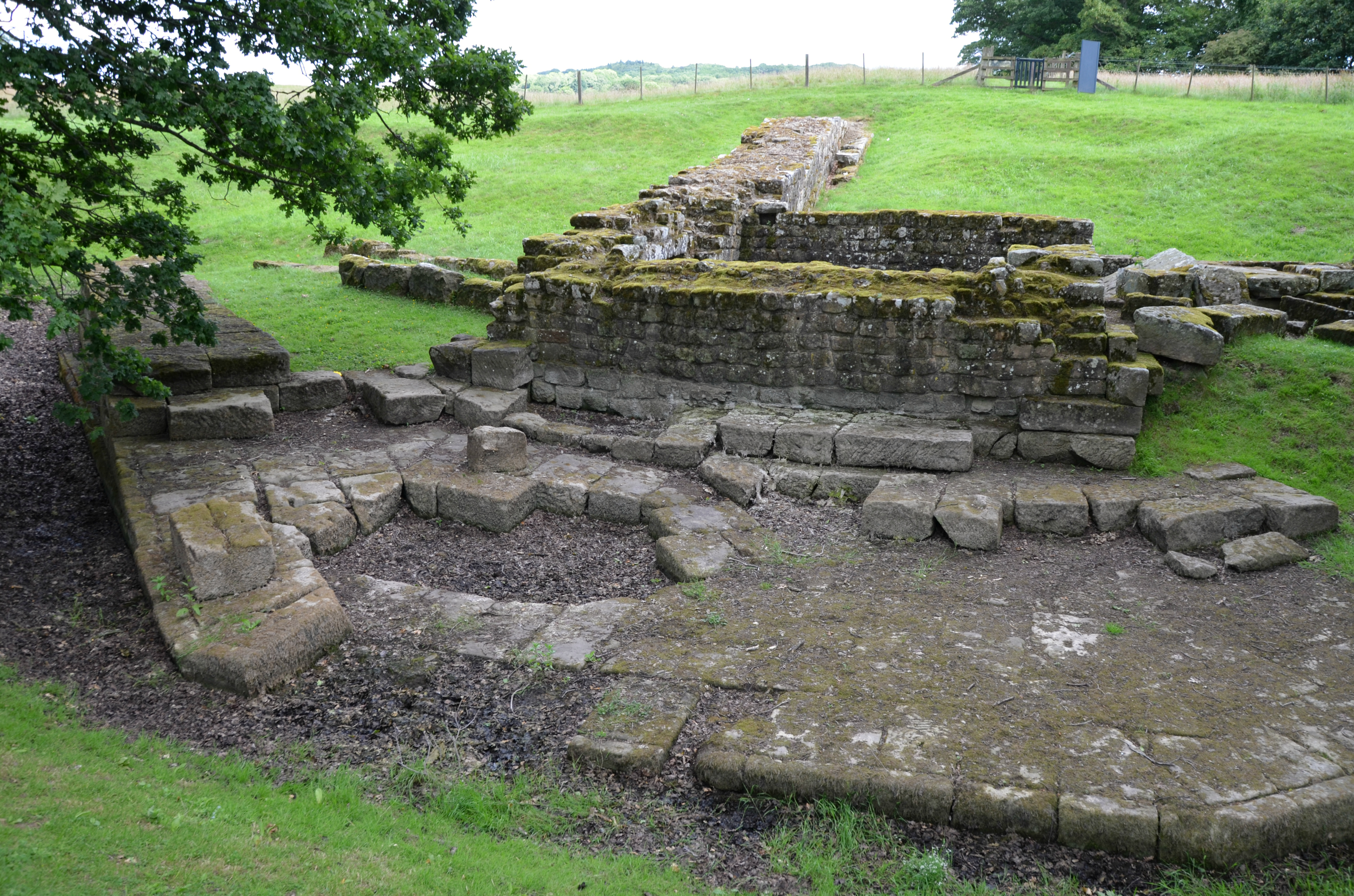 Chesters Bridge Abutment, Hadrian's Wall